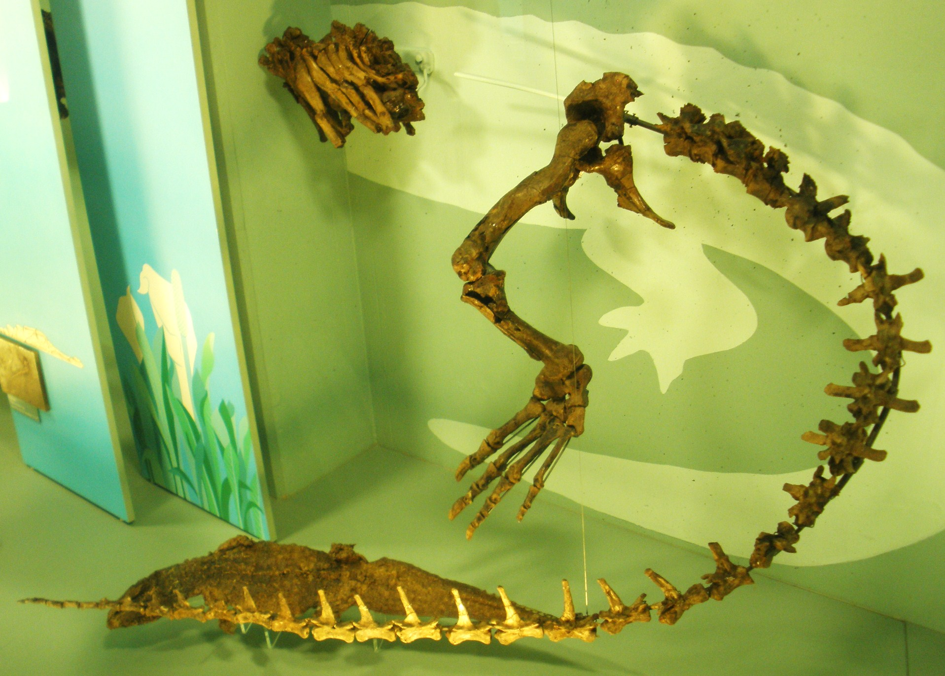 Fossil of Asiatosuchus, an extinct reptile. Took the photo at Senckenberg Museum of Frankfurt